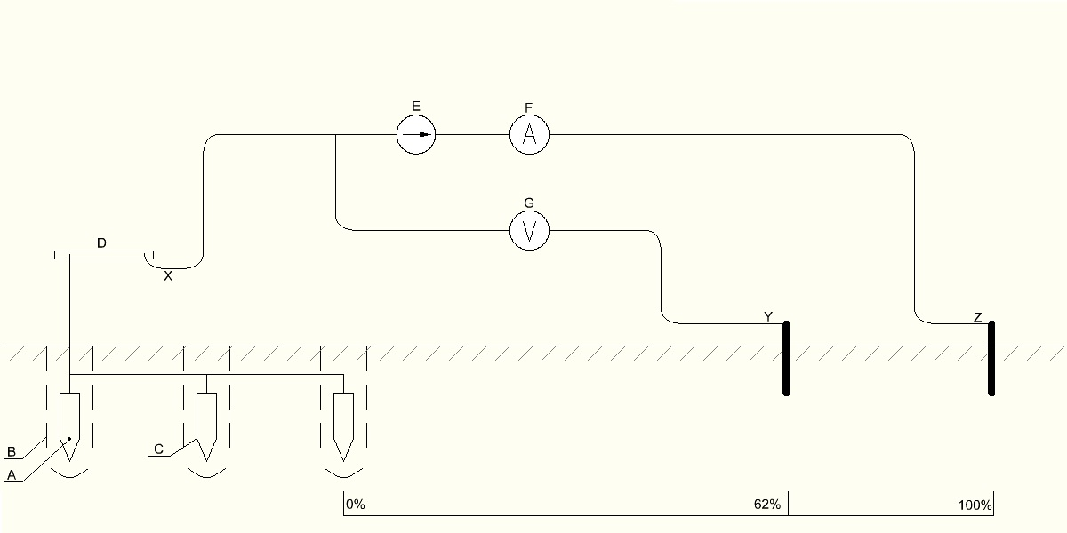 Earthing resistance measuring.